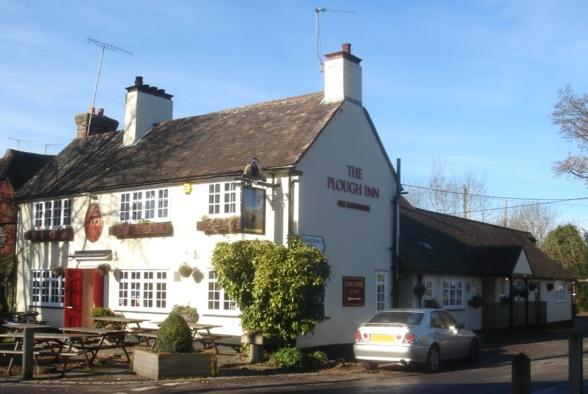 The Plough Inn, Ifield Street, Ifield, Crawley, West Sussex, England. Built in 1900; two-storey pub with casement windows. Listed at Grade II by English Heritage (ref #363400) (joint listing with Harrow Cottage and Old Plough Cottage)